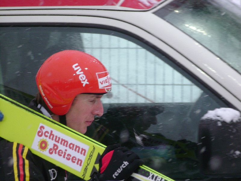 ski jumper Michael Uhrmann from Germany during the World Cup in Zakopane on 27-1-2008